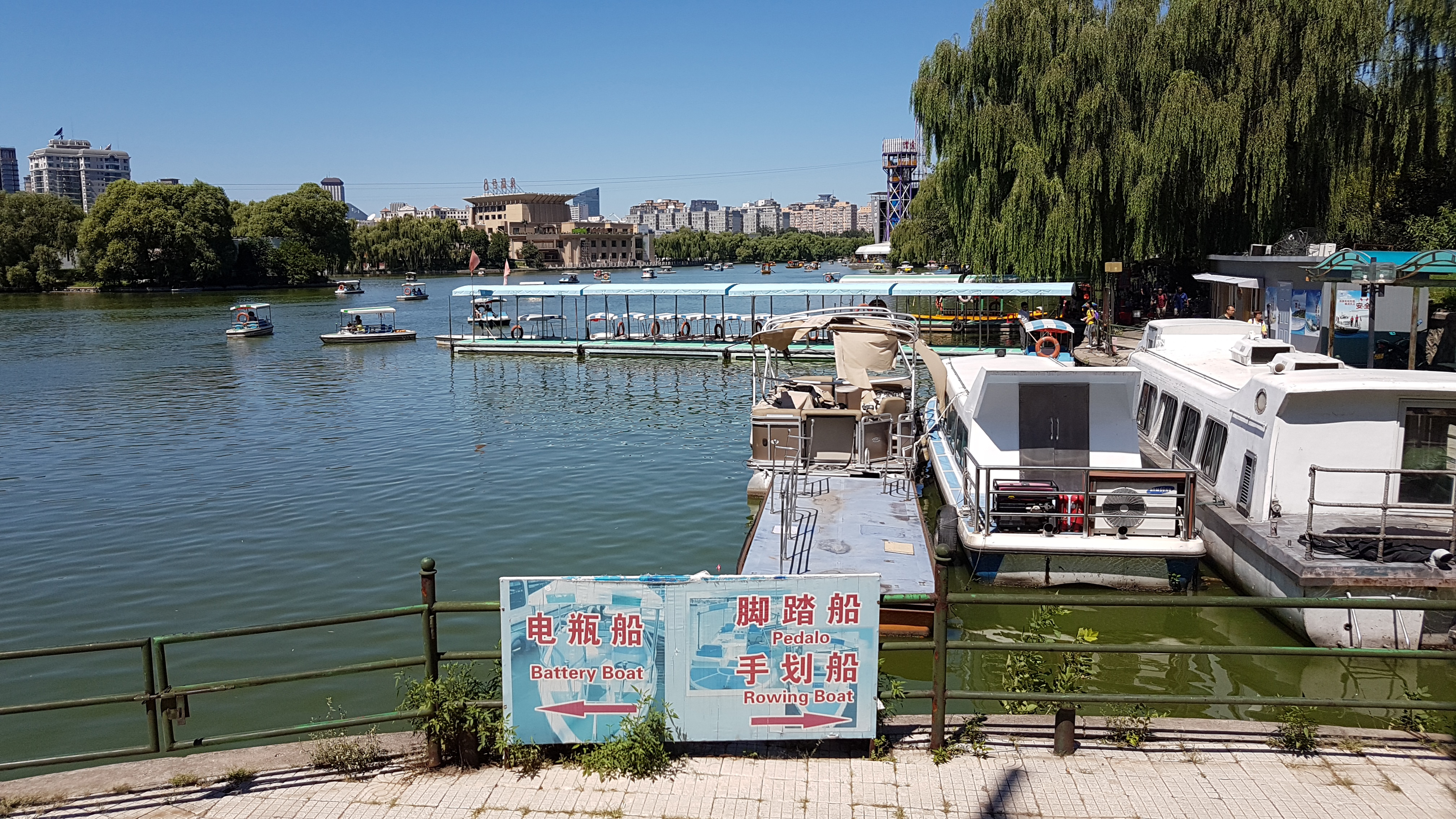 Chaoyang Park, Beijing